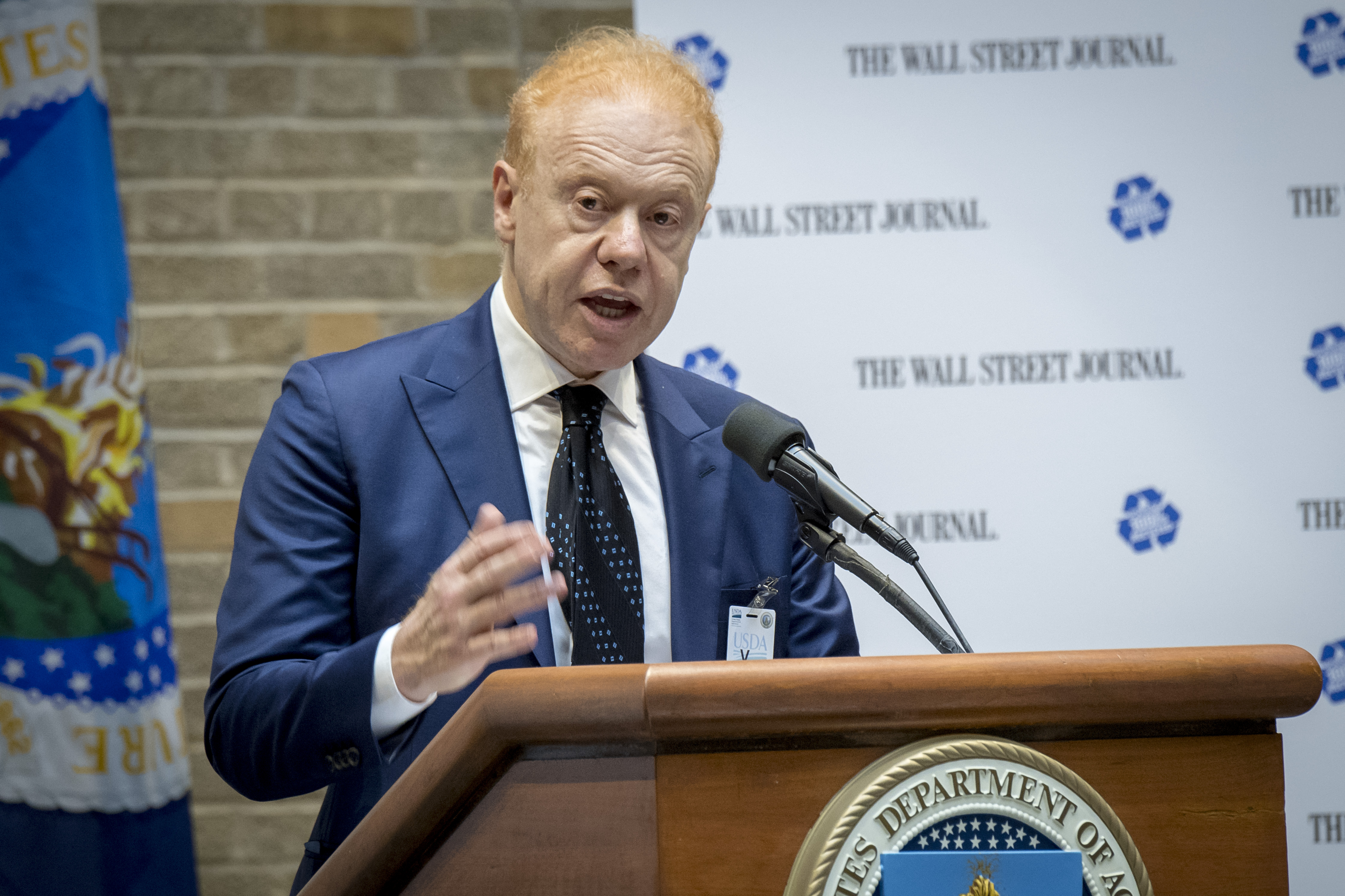 Executive Chairman of Visy Industries and Pratt Industries Anthony Pratt speaks at the forum organized by the Wall Street Journal at the USDA headquarters in the Jamie L. Whitten Federal Building in Washington, D.C., March 7, 2018. USDA Photo by Tom Witham